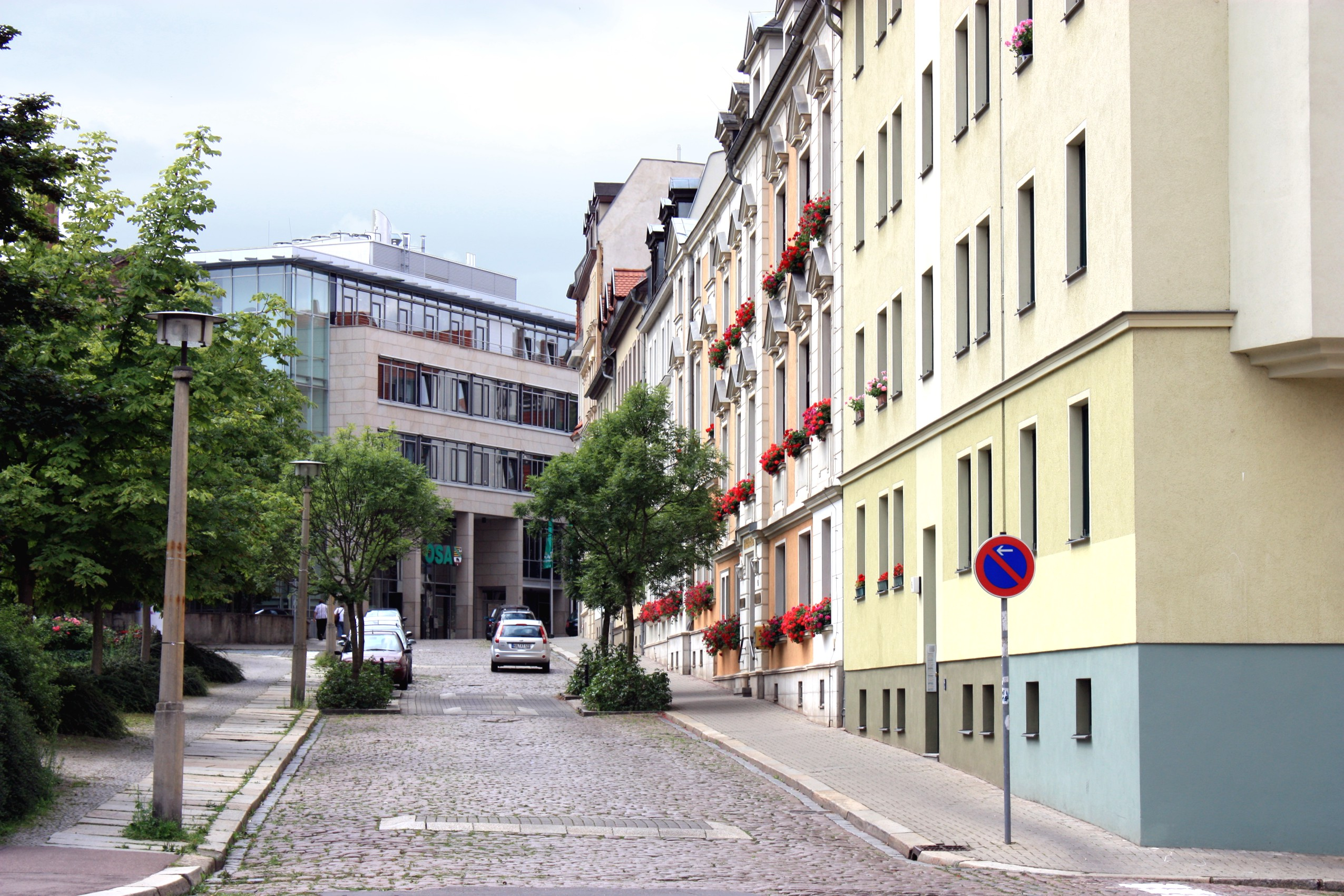 Halle (Saale), Adam-Kuckhoff-Straße, southern part